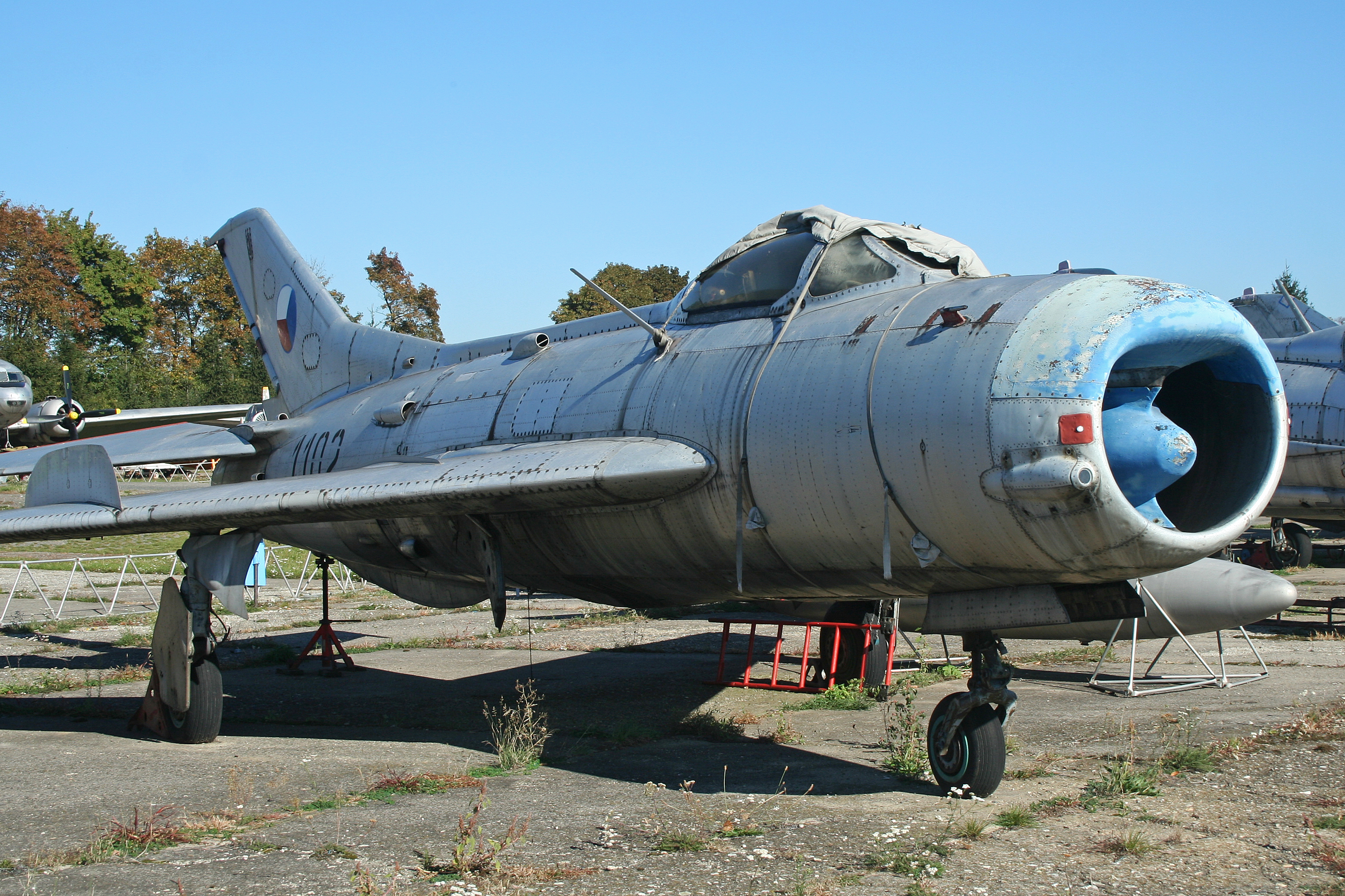 msn 651102. On display at the Vyskov Air Museum, Czech Republic. 06-10-2012